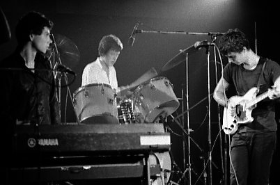 Horseshoe tavern, Toronto, May 13, 1978